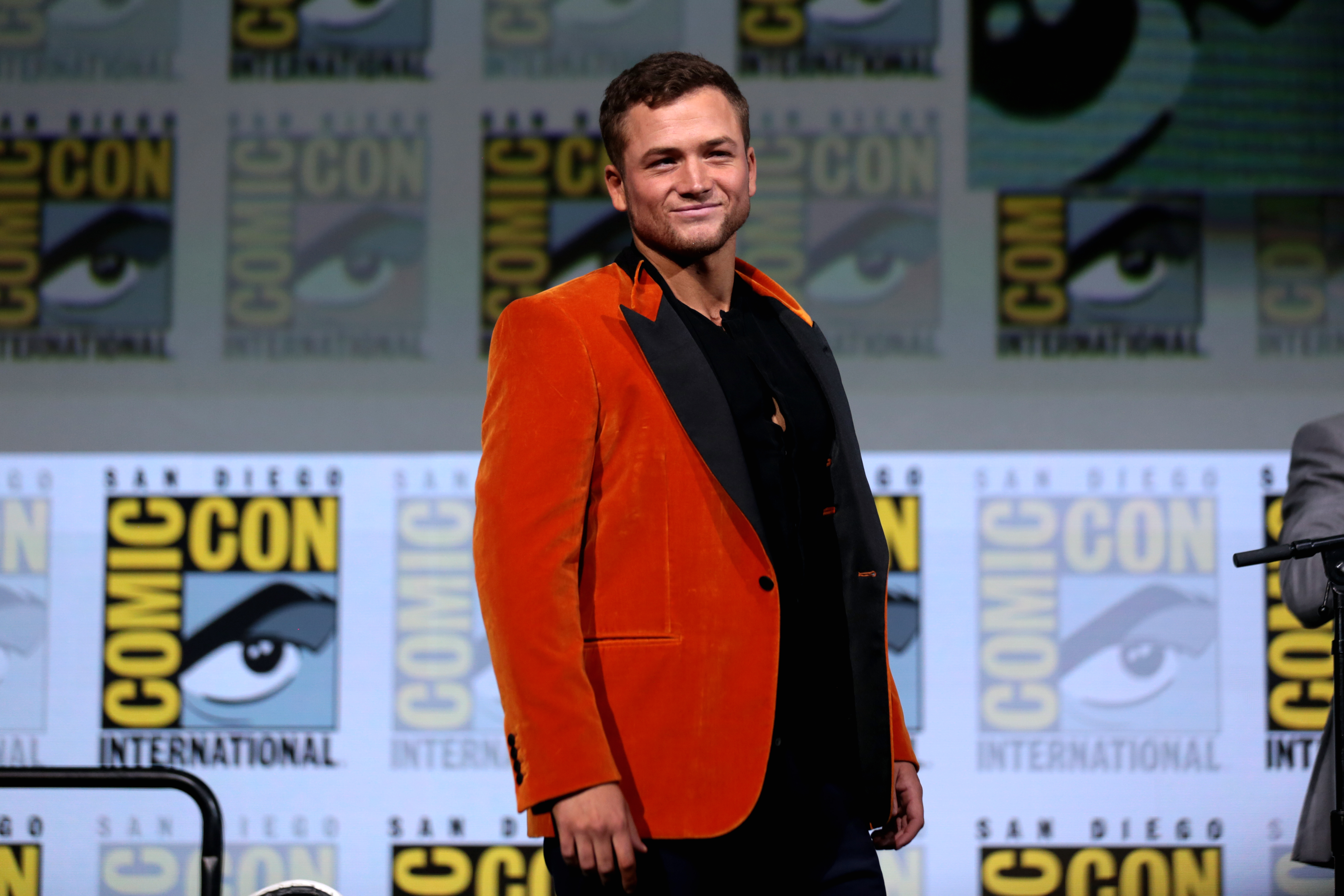 Taron Egerton speaking at the 2017 San Diego Comic Con International, for "Kingsman: The Golden Circle", at the San Diego Convention Center in San Diego, California.